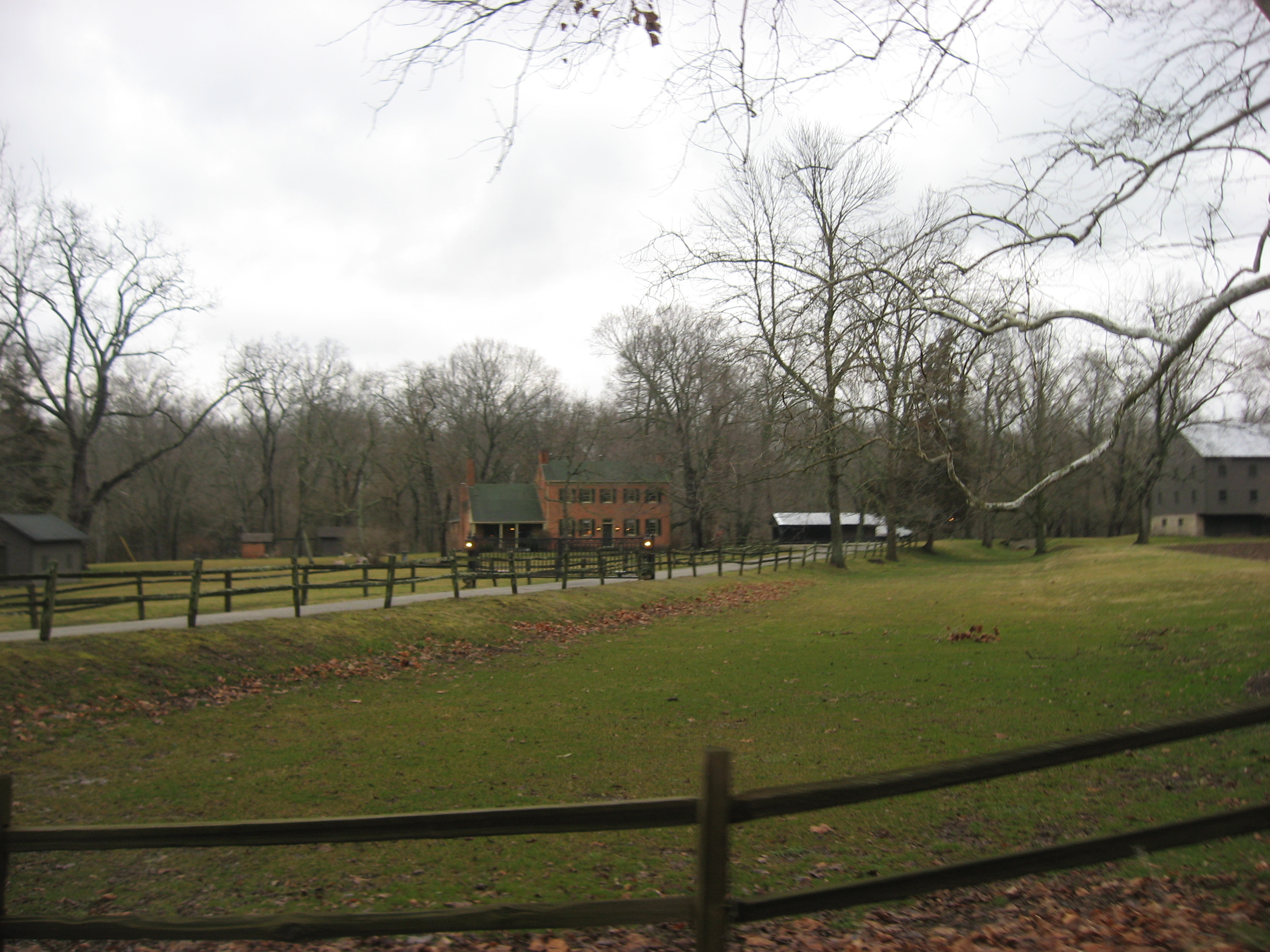 Roadside view of the Staley Farm, located at 7095 Staley Road north of Brandt in Bethel Township, Miami County, Ohio, United States. Centered around a farmhouse built in 1825, is listed on the National Register of Historic Places.